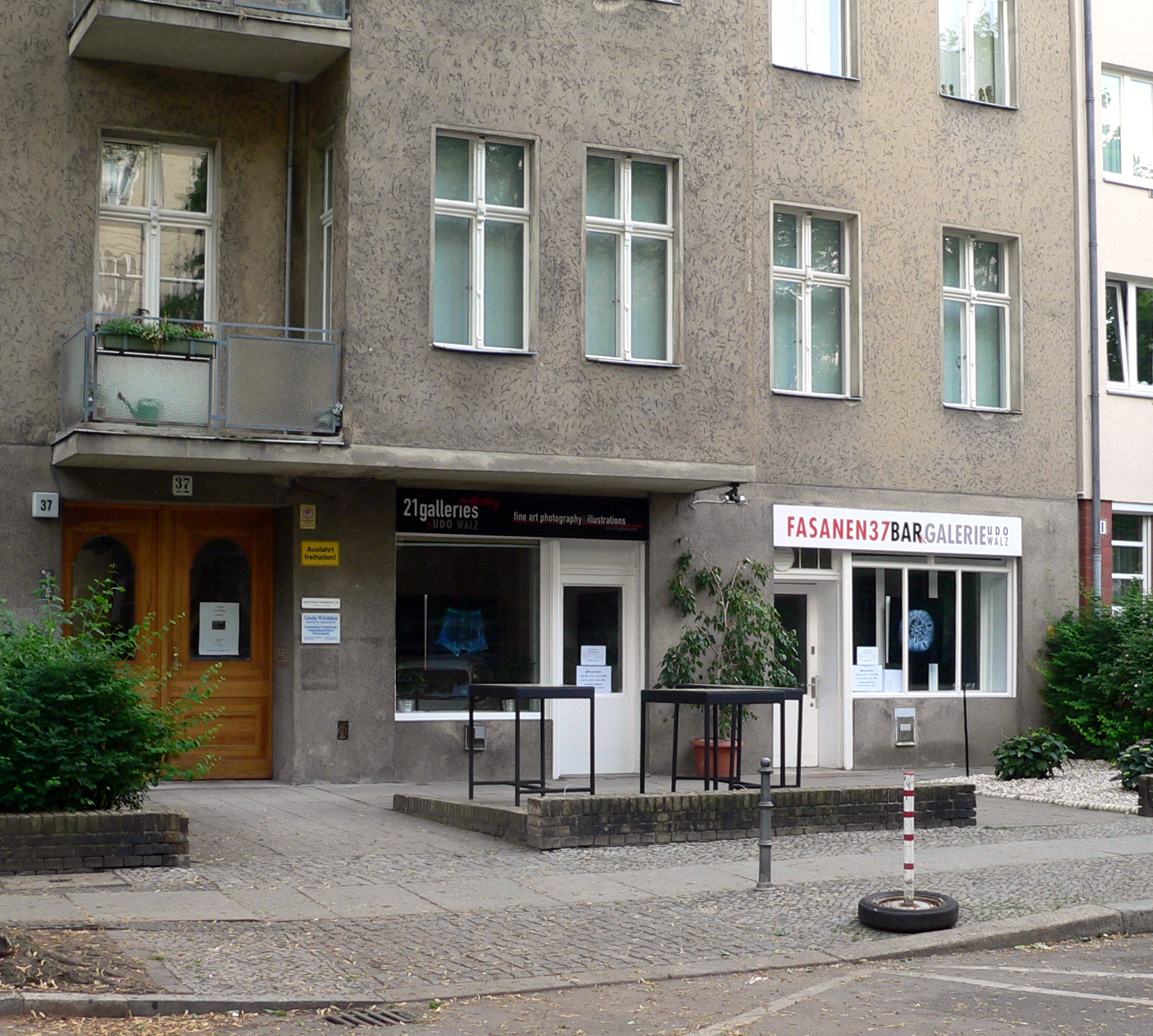 Berlin-Wilmersdorf Bar Gallerie at Fasanenstraße. Former Gallerie Bremer.